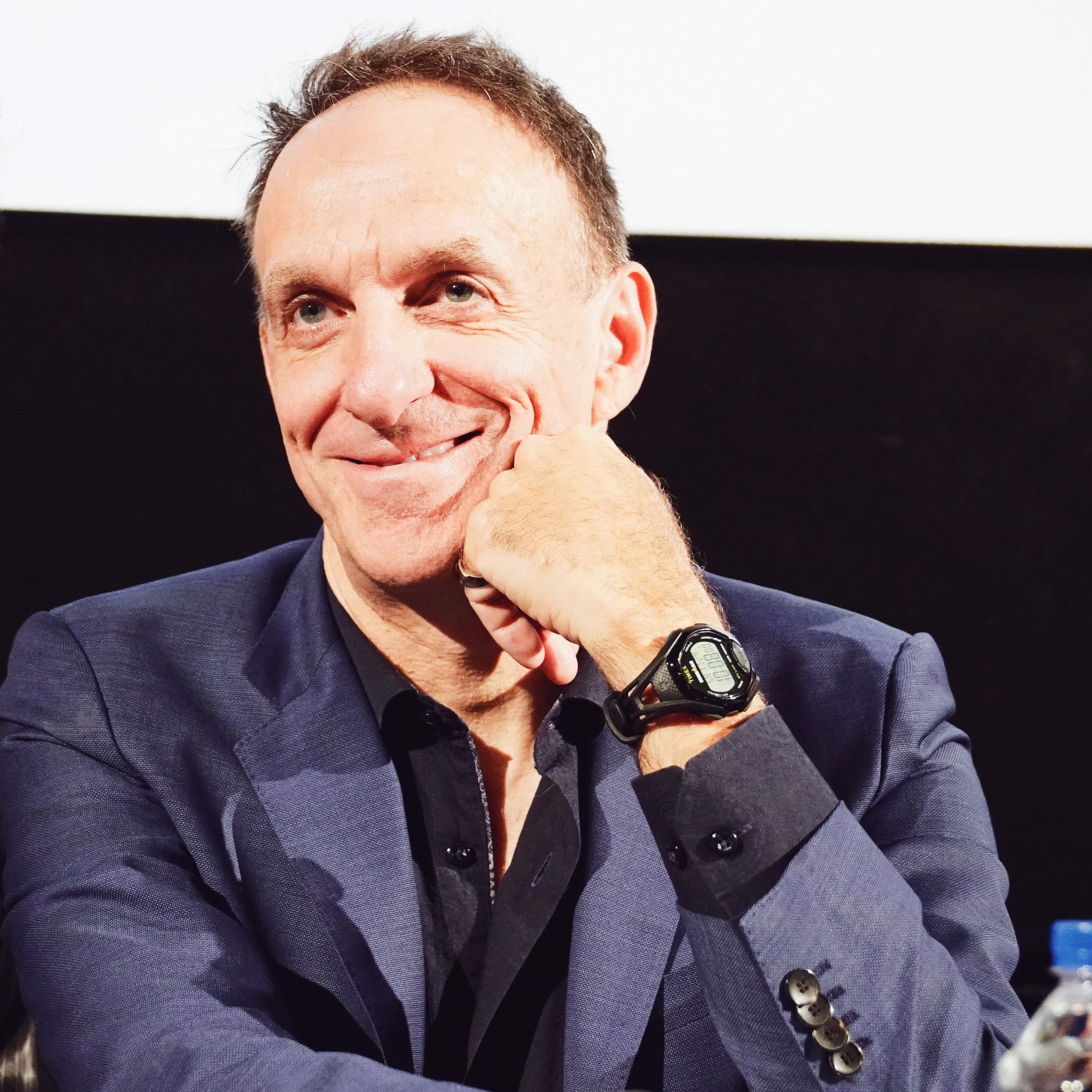 As the title.